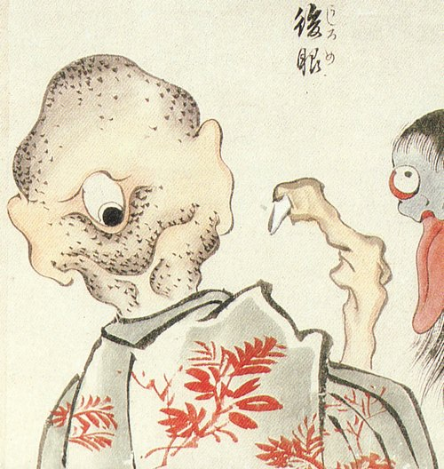 Ushirome from the Hyakki Yagyō Emaki